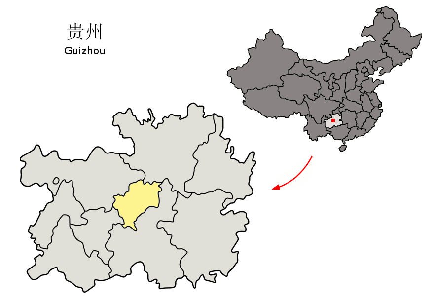 Location of Guiyang Prefecture (yellow) within Guizhou province of China Map drawn in november 2007 using various sources, mainly : Guizhou province administrative regions GIS data: 1:1M, County level, 1990 Guizhou Counties map from